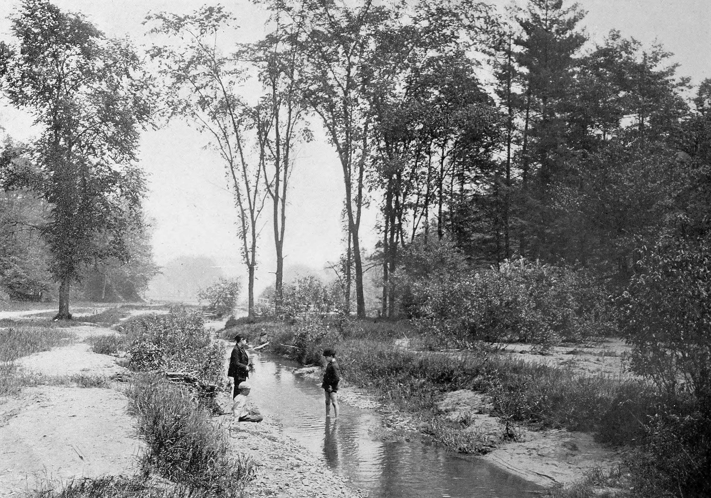 Rosedale Ravine, Toronto, Canada. Identifier: torontoidealsumm00unse Title: Toronto the ideal summer city : pictured and described. Year: 1890 (1890s) Authors: Subjects: Publisher: Toronto : W.G. MacFarlane Text Appearing Before Image: 5 TOWER OF THE PARLIAMENT BUILDING (n the foreground stretch the green swards of Queens Park, shaded by luxuriant horse chestnuts,itecture is displayed to excellent advantage. In the background appears thee Island, Torontos Long Branch. Text Appearing After Image: ROSE DALE RAVINE JARVIS STREET